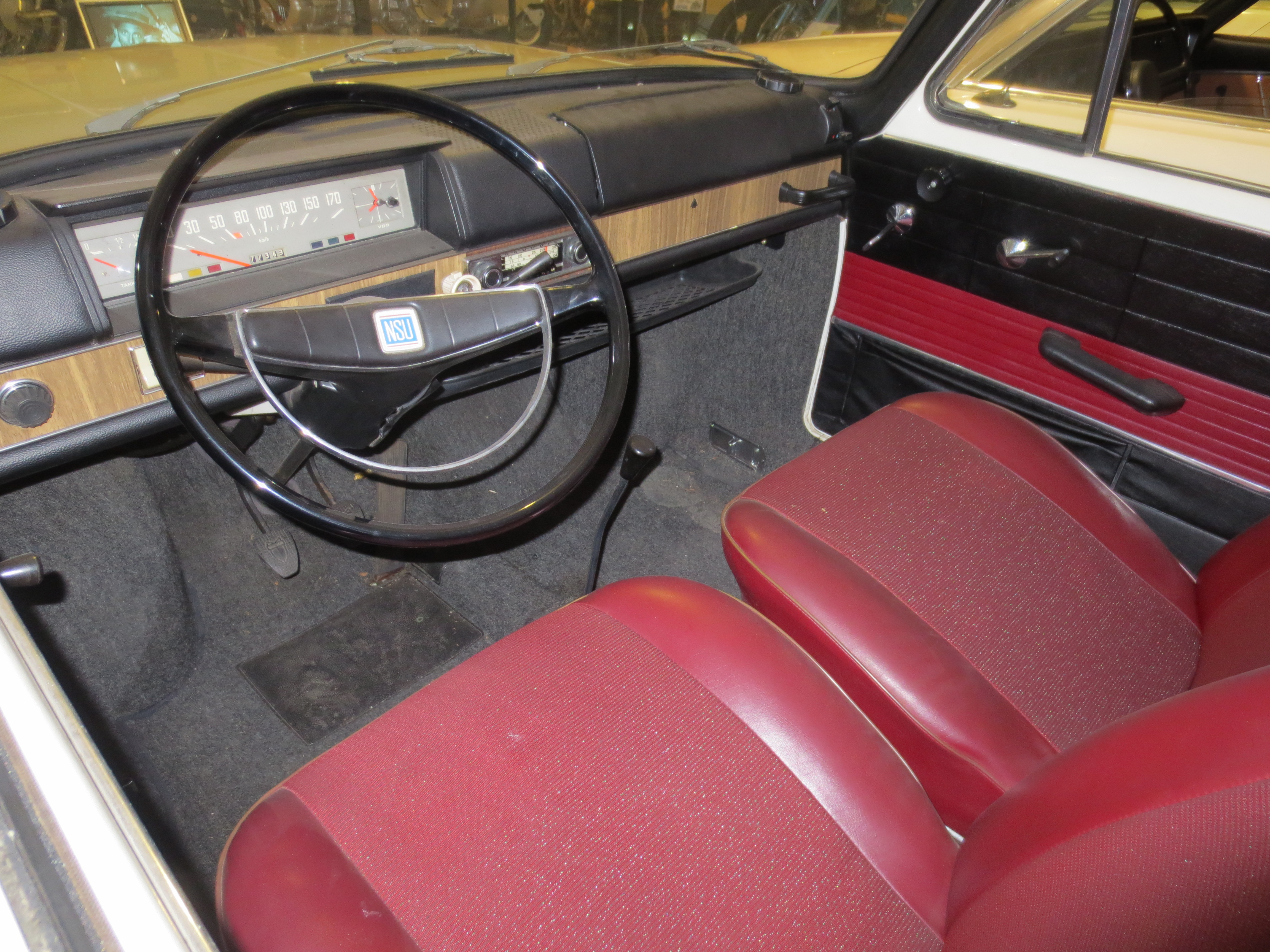 Subject: NSU Typ 110 Author: Luc106 Date:October 9th, 2014 Place/Country: Autovision Museum, Altlußheim (Deutschland) I release all rights in the public domain.